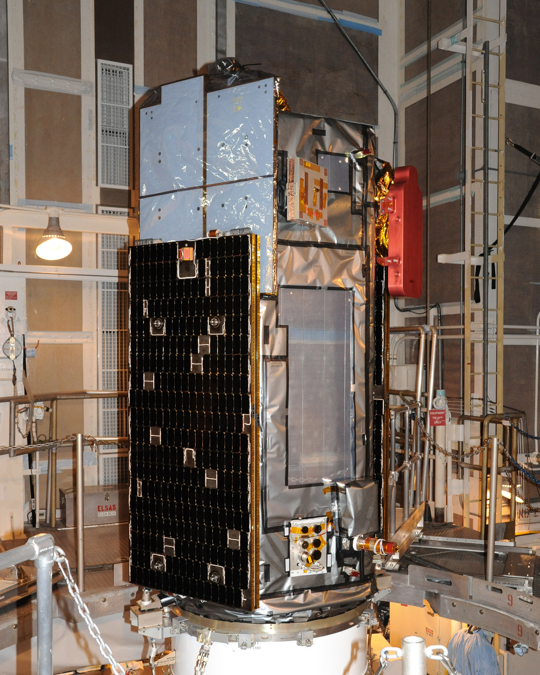 NASA's Orbiting Carbon Observatory-2, or OCO-2, satellite sits atop a United Launch Alliance Delta II rocket prior to encapsulation in its payload fairing at Space Launch Complex 2 at Vandenberg Air Force Base in California. Launch is scheduled for 2:56 a.m. PDT 5:56 a.m. EDT on July 1. OCO-2 is NASA’s first mission dedicated to studying atmospheric carbon dioxide, the leading human-produced greenhouse gas driving changes in Earth’s climate. OCO-2 will provide a new tool for understanding the human and natural sources of carbon dioxide emissions and the natural "sinks" that absorb carbon dioxide and help control its buildup. The observatory will measure the global geographic distribution of these sources and sinks and study their changes over time.